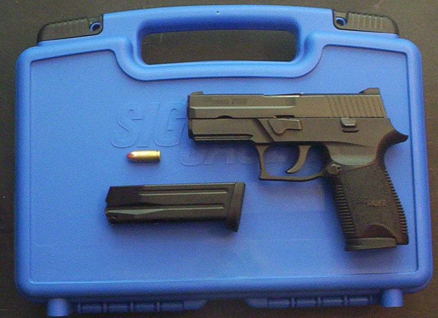 SIG Sauer P250 compact 9mm pistol, black, with extra magazine and a round of ammunition, on SIG Sauer factory case.